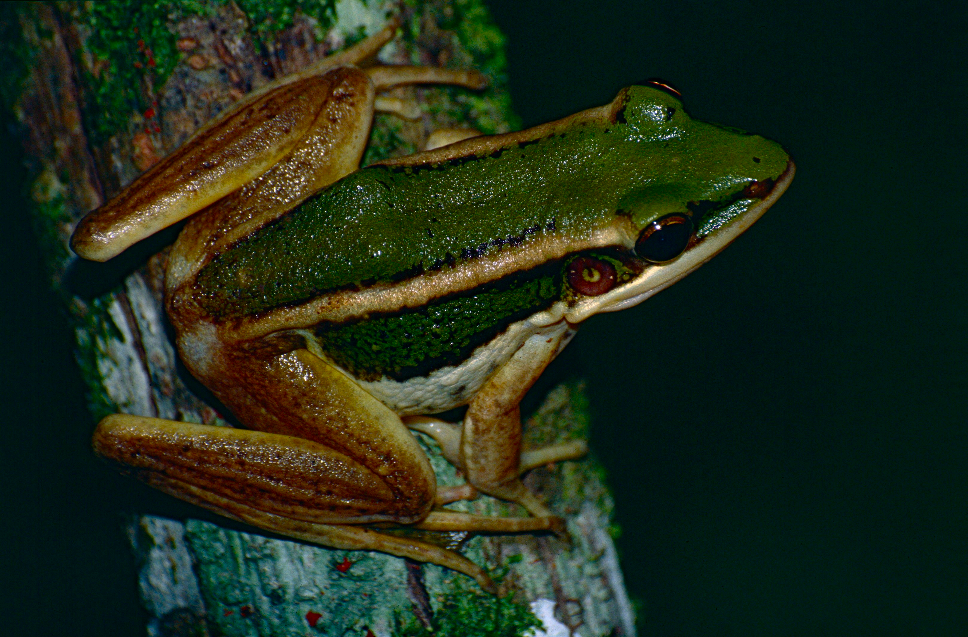 Sepilok NP, Sabah, MALAYSIA Scanned slide from 2001